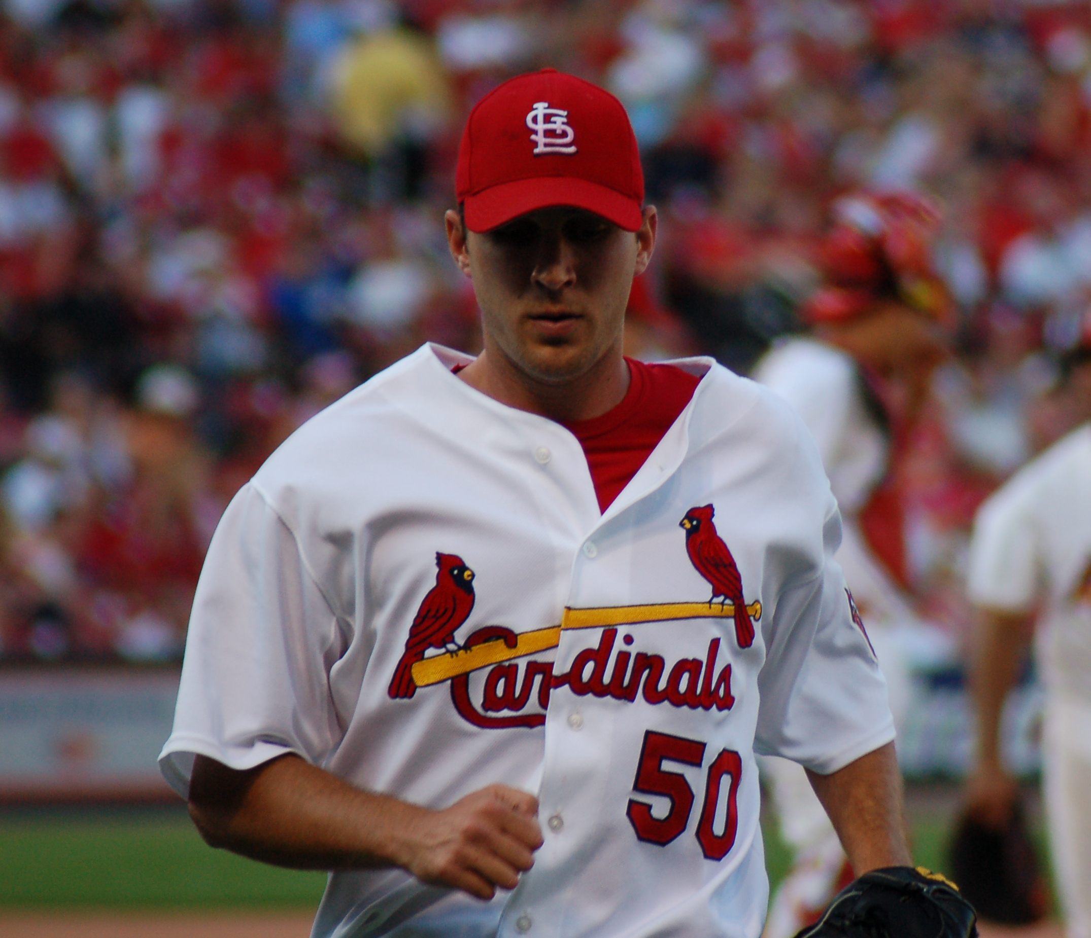 Adam Wainwright